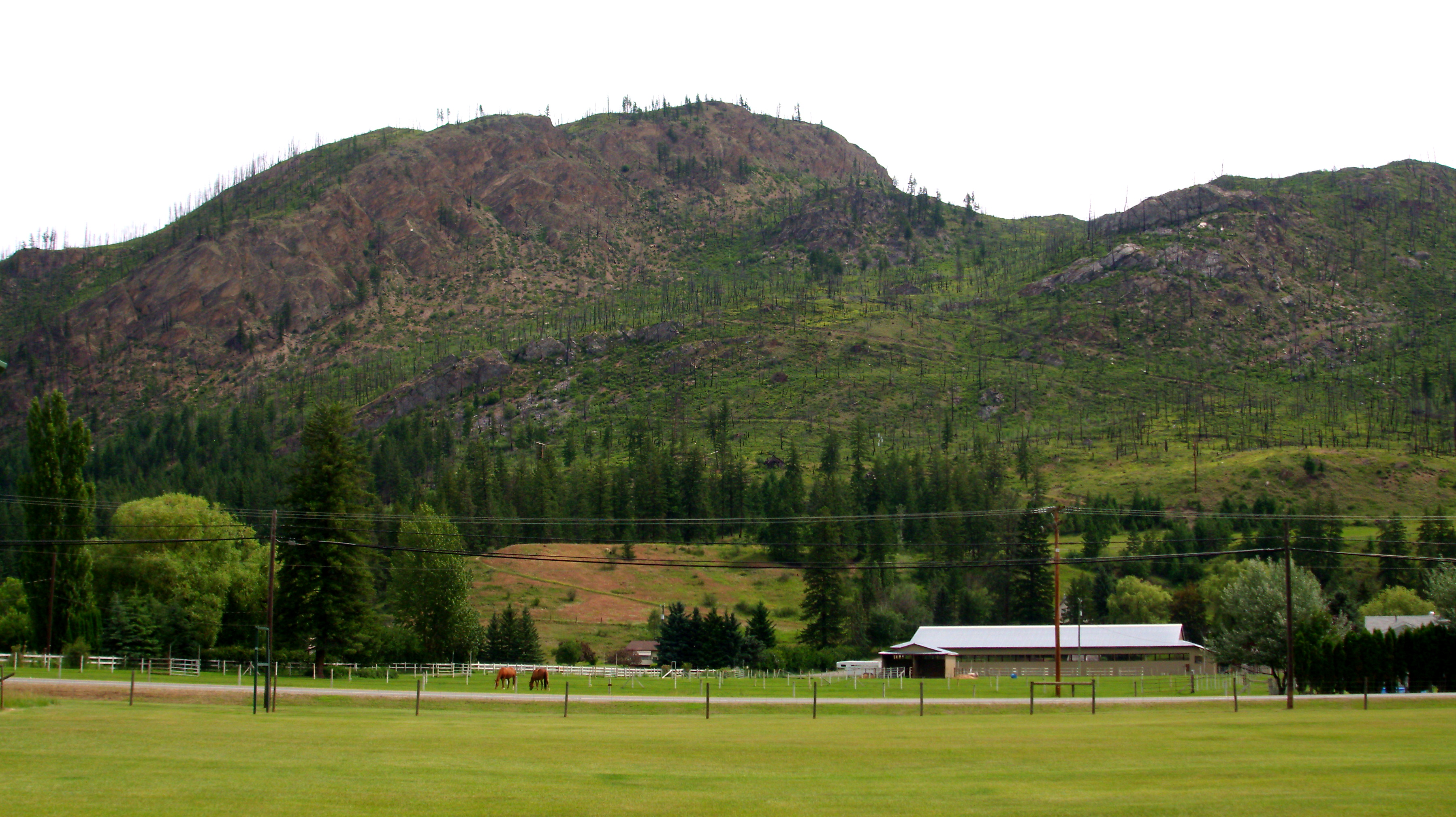 Mountain slopes and ranch across from the Barriere townsite in British Columbia. Taken in 2012 nine years after the 2003 fire.